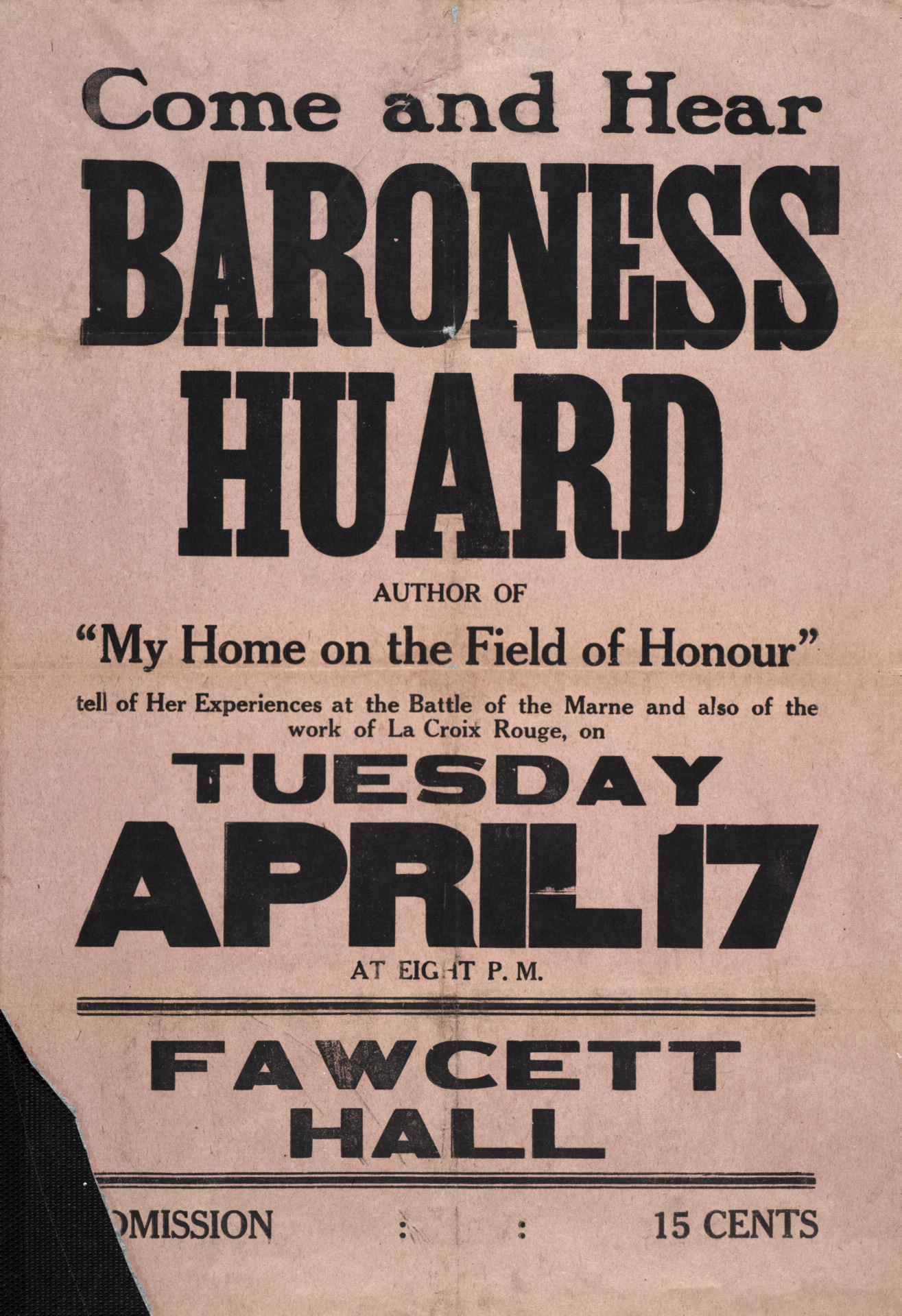 American-born Frances Wilson Huard was living in a large château in France's Marne valley when her husband left with the French army in September of 1914. Her book, My Home in the Field of Honour (published 1916), recounts the story of what happened when WWI arrived on the doorstep of her large household the year she turned 29. Baroness Huard was known to give talks such as the one advertised on this broadside, which we think dates from April of 1917. Creator: Unknown Date: 1917 Identifier: 1917? Baroness. S Format: Ephemera Rights: Public domain Courtesy: Toronto Public Library. More information: (view details and larger image)